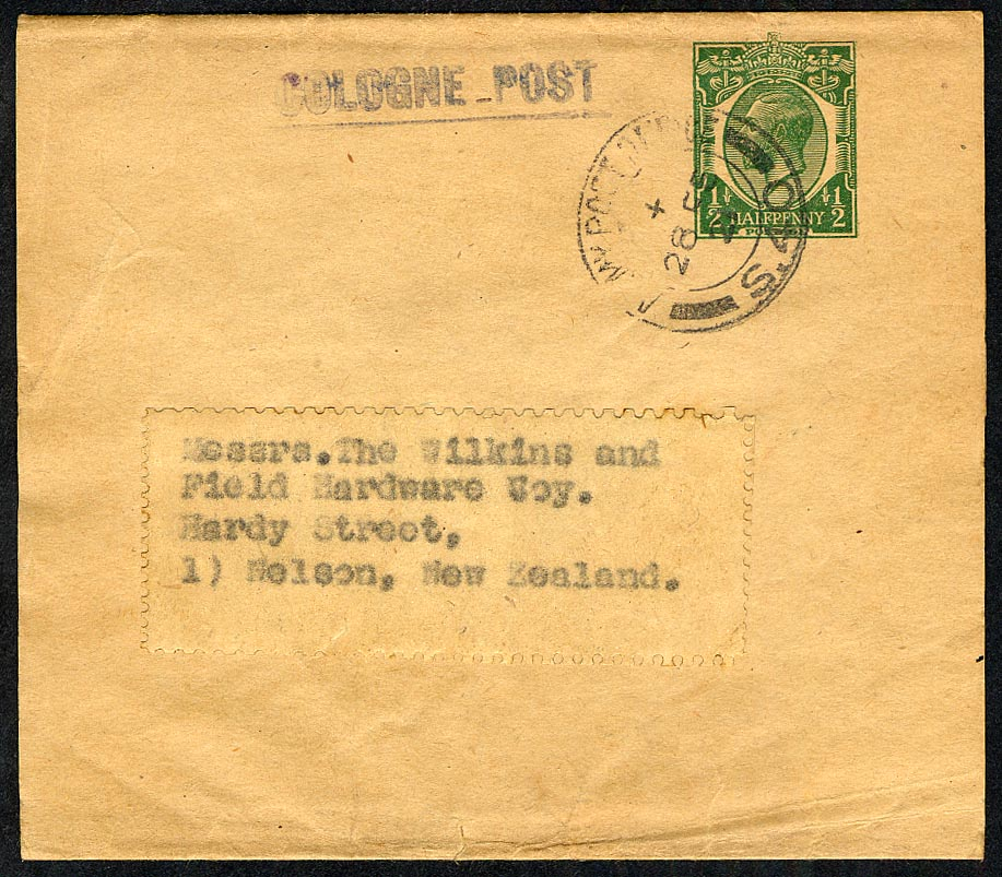 British half-penny postal stationery wrapper cancelled Army Post Office and superscribed Cologne Post for the military daily newspaper The Cologne Post published between 31 March 1919 to 17 January 1926.